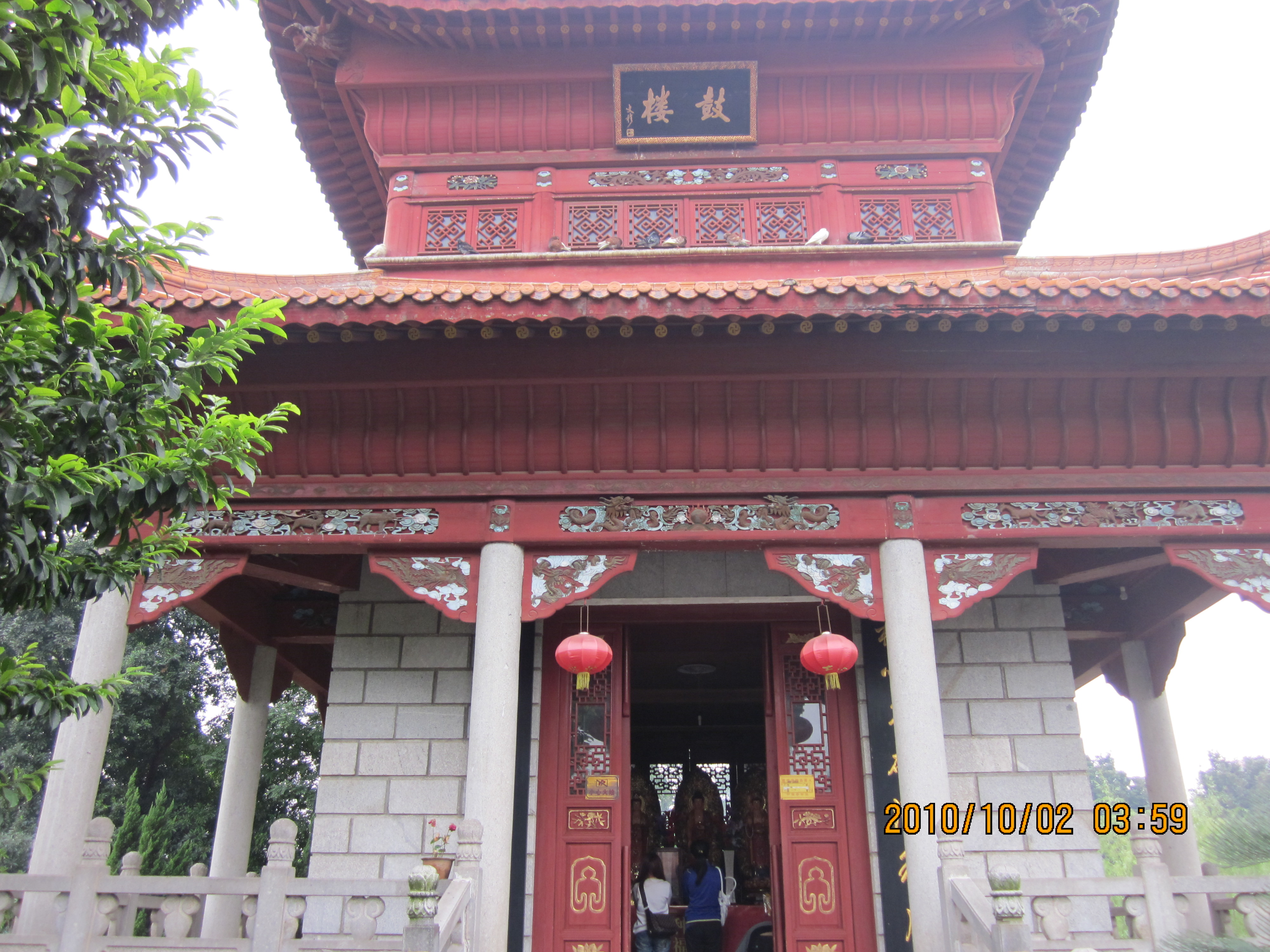 The Drum tower at Kaifu Temple, in Kaifu District of Changsha, Hunan, China.